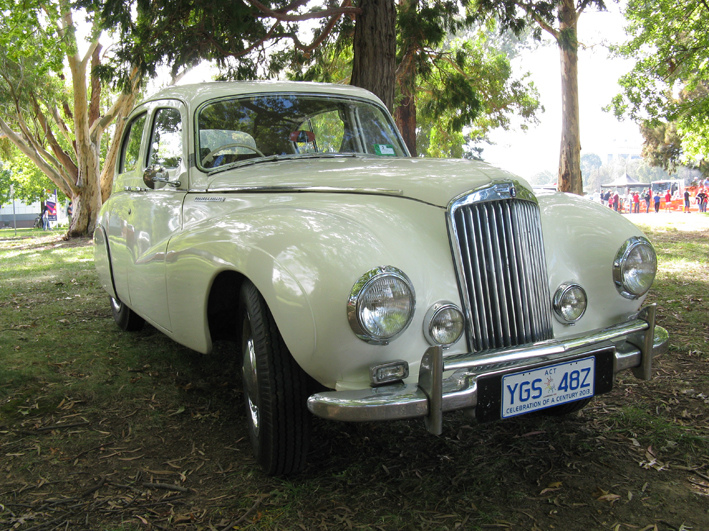 Sunbeam Talbot 80 Mk I Canberra Australia